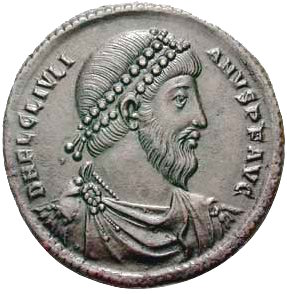 Portrait of Julianus( emperor Julian ) on a bronze coin from Antiochië, 360-363. Photo courtesy of Classical Numismatic Group, Inc. (CNG)